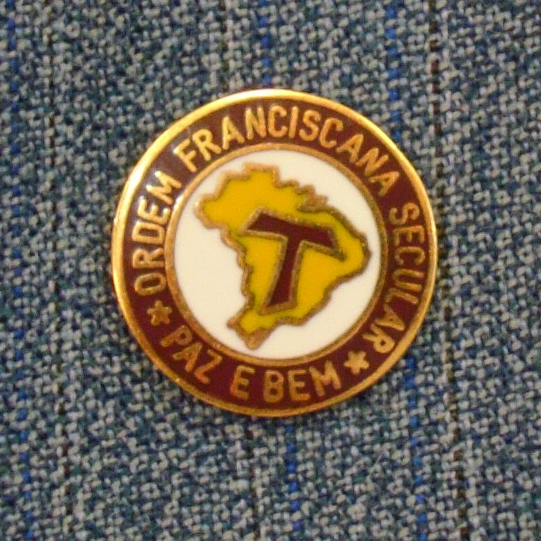 Lapel pin of Secular Franciscan Order of Brazil